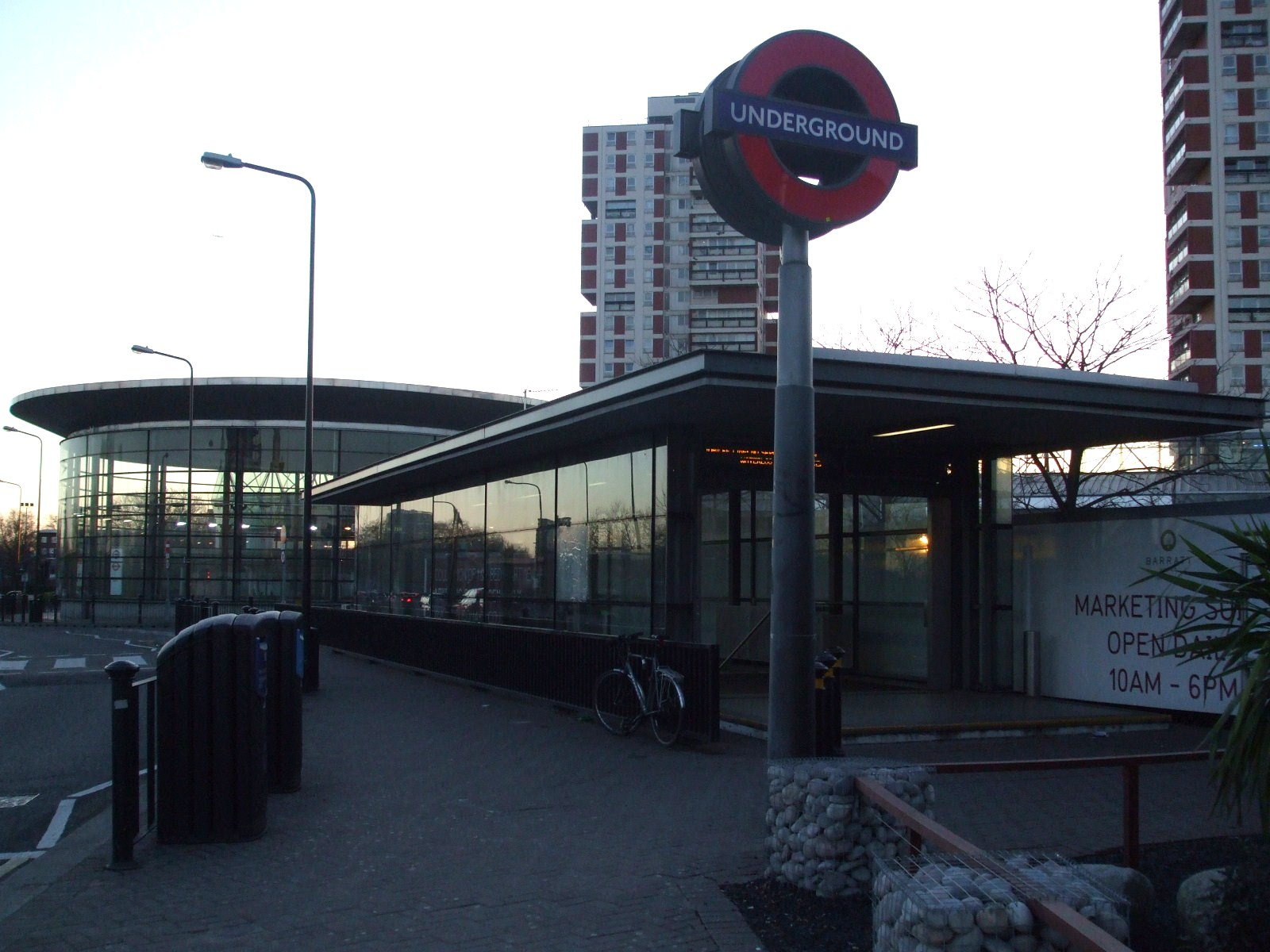 Canada Water tube station eastern entrance